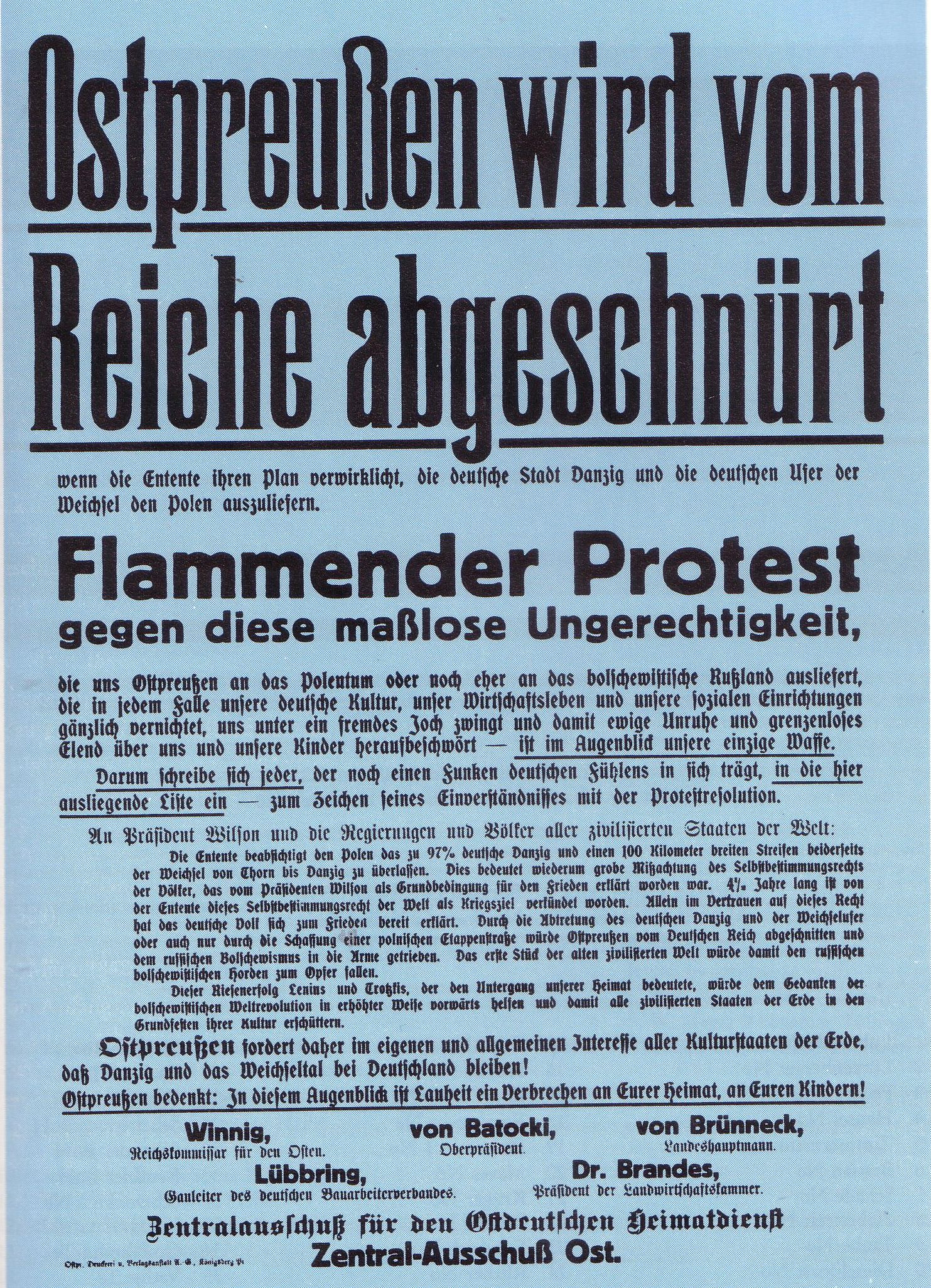 Ostpreußen wird vom Reiche abgeschnürt - "East Prussia is cut off from the Reich". German poster agitating against the separation of East Prussia from Germany by the so-called Polish corridor.